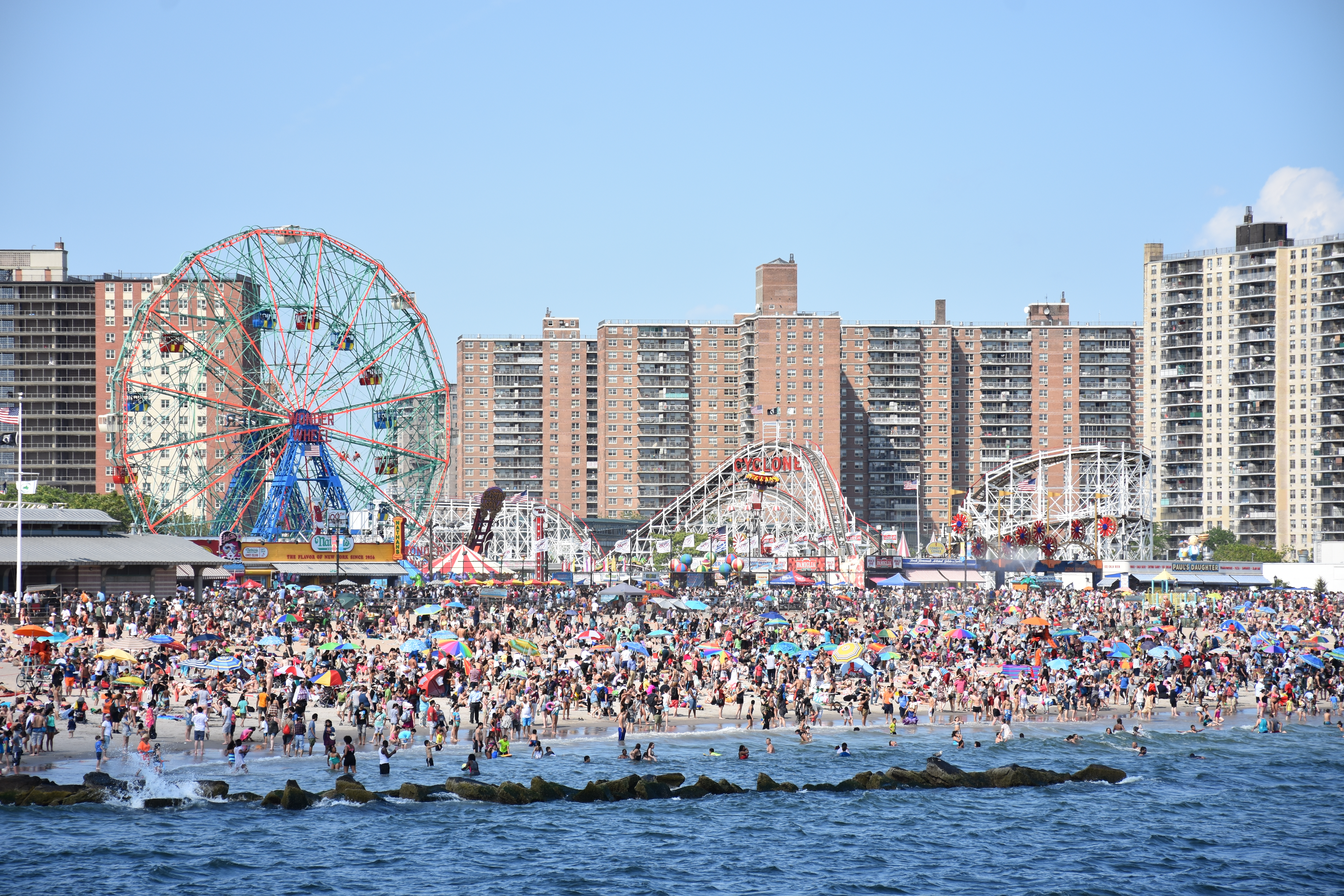 Coney Island as seen from the pier in June 2016.